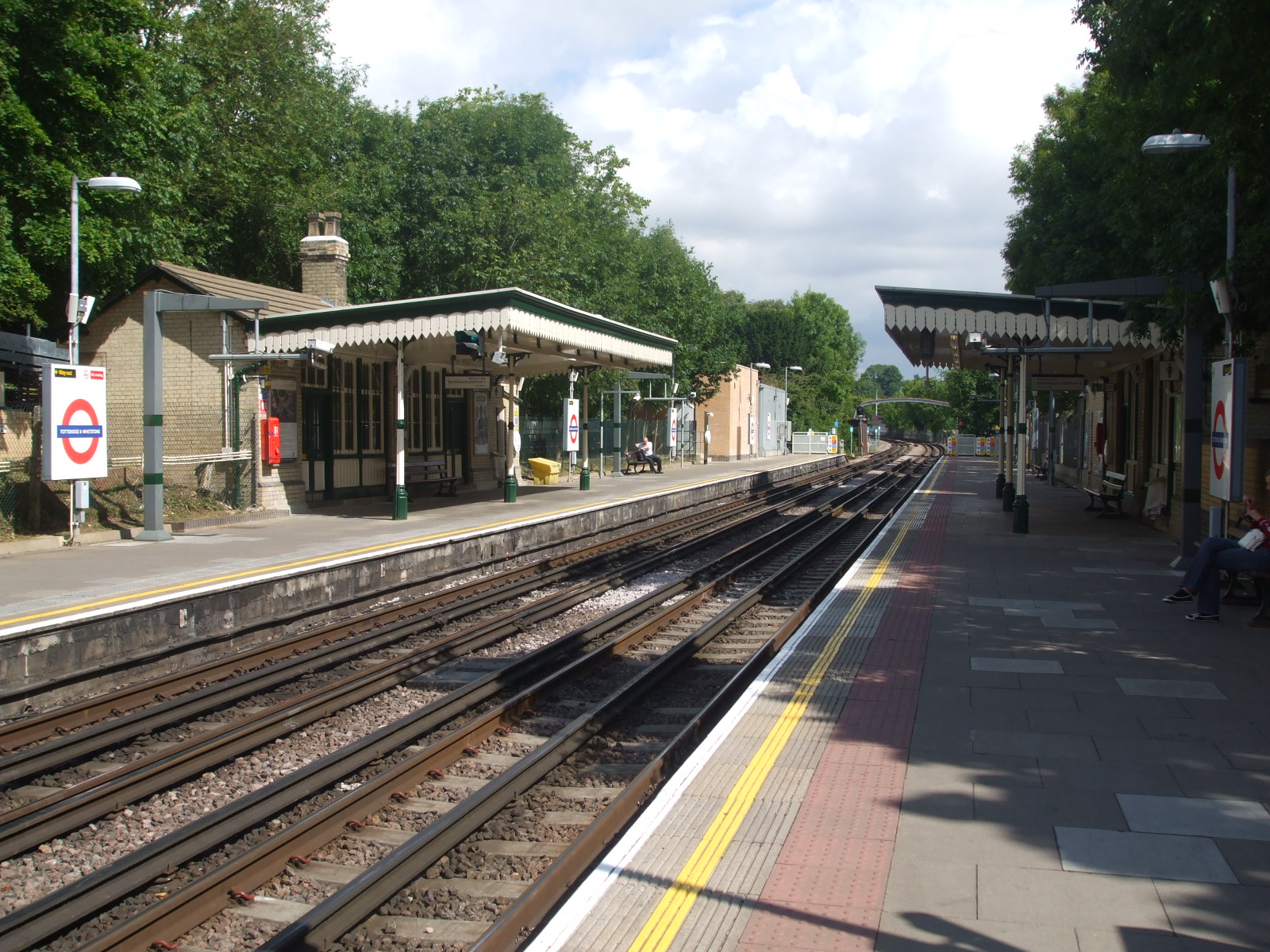 Totteridge & Whetstone tube station looking north